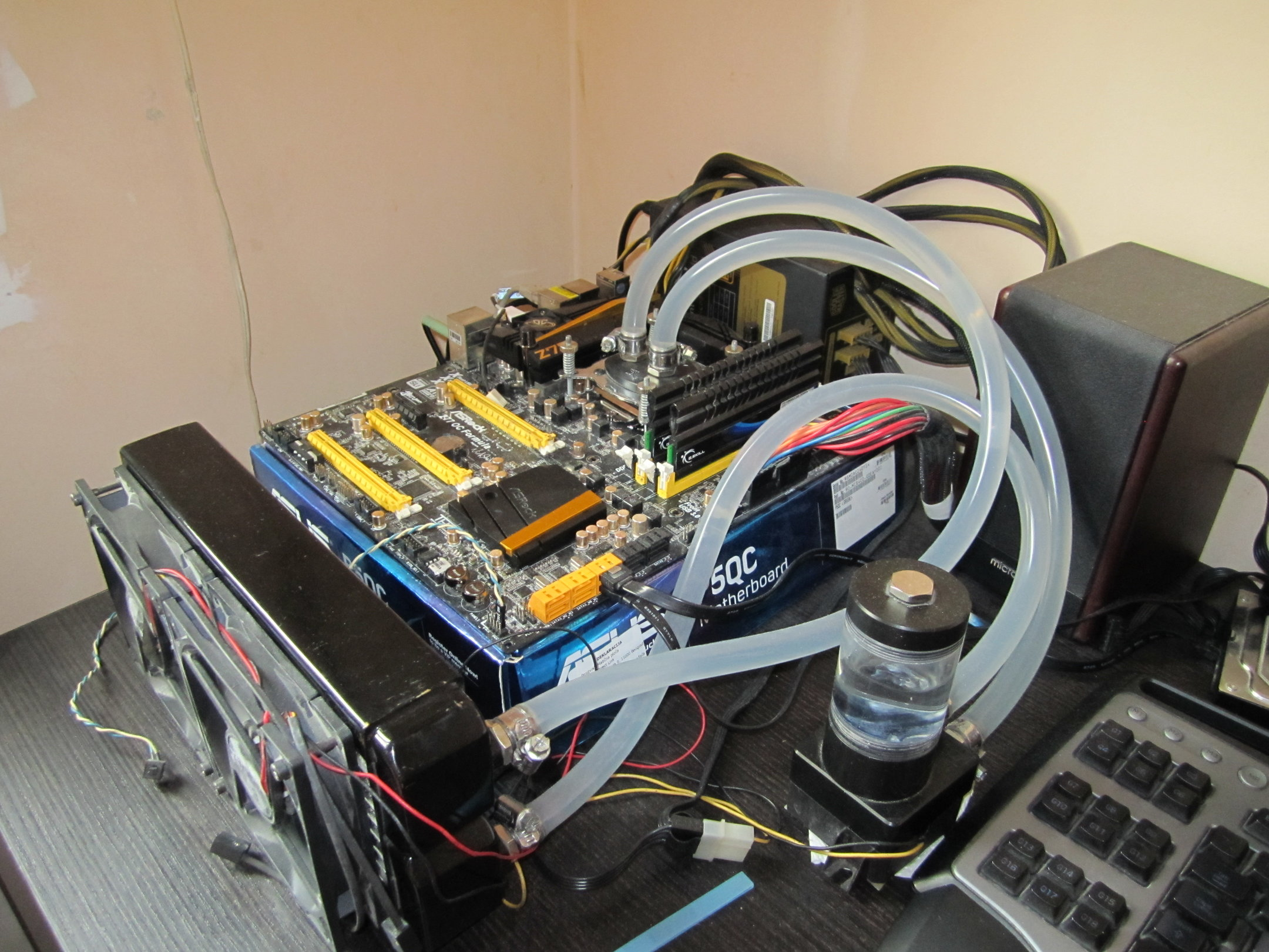 ASRock Z77 OC Formula